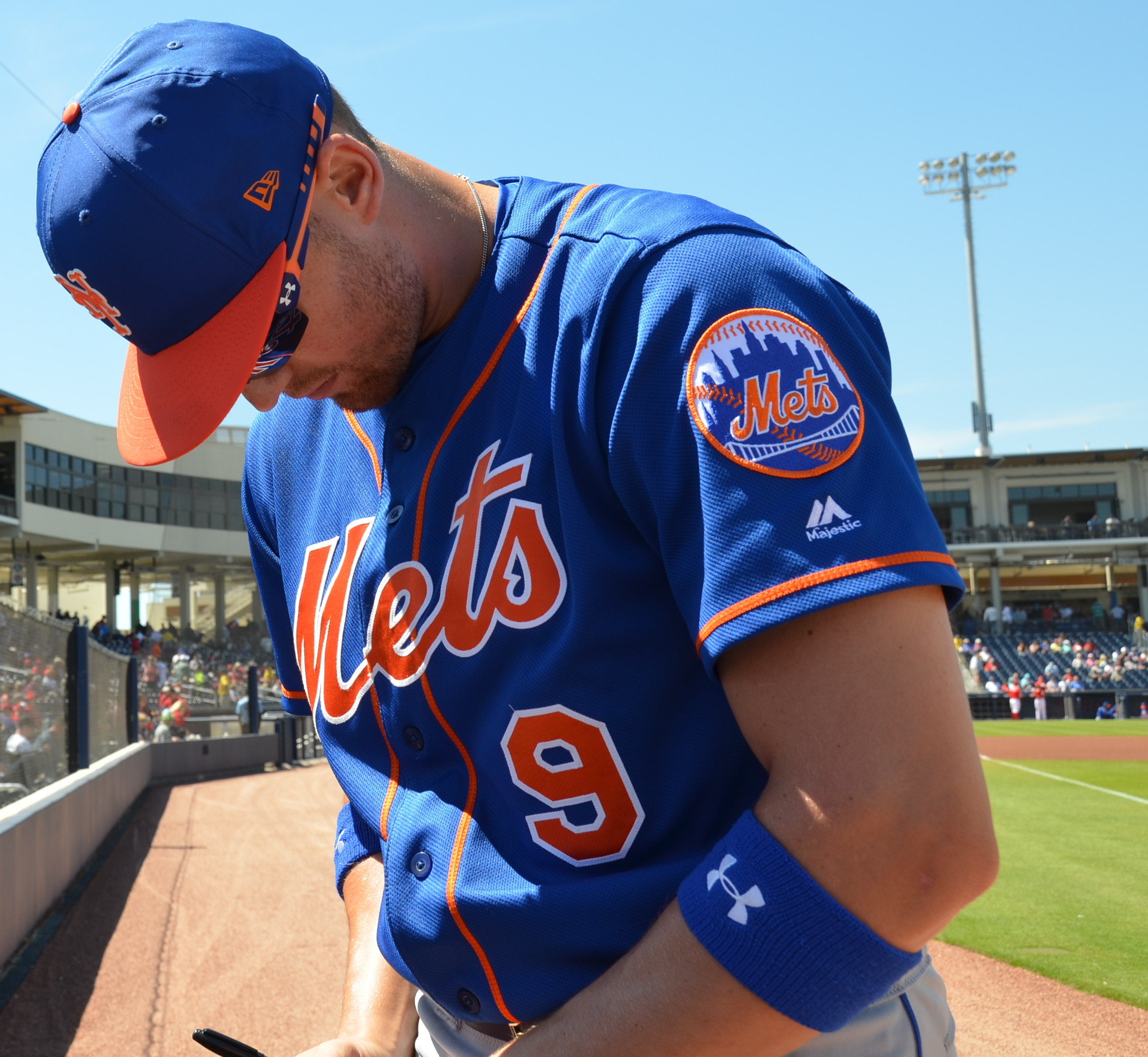 Brandon Nimmo